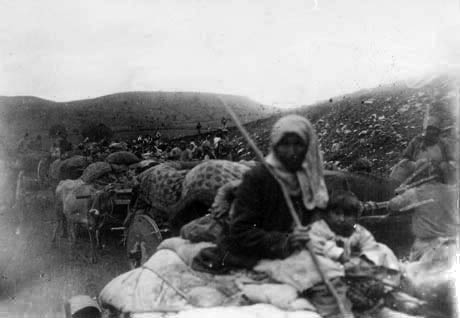 Armenian deportations in Erzurum. Pictures taken by Viktor Pietschmann